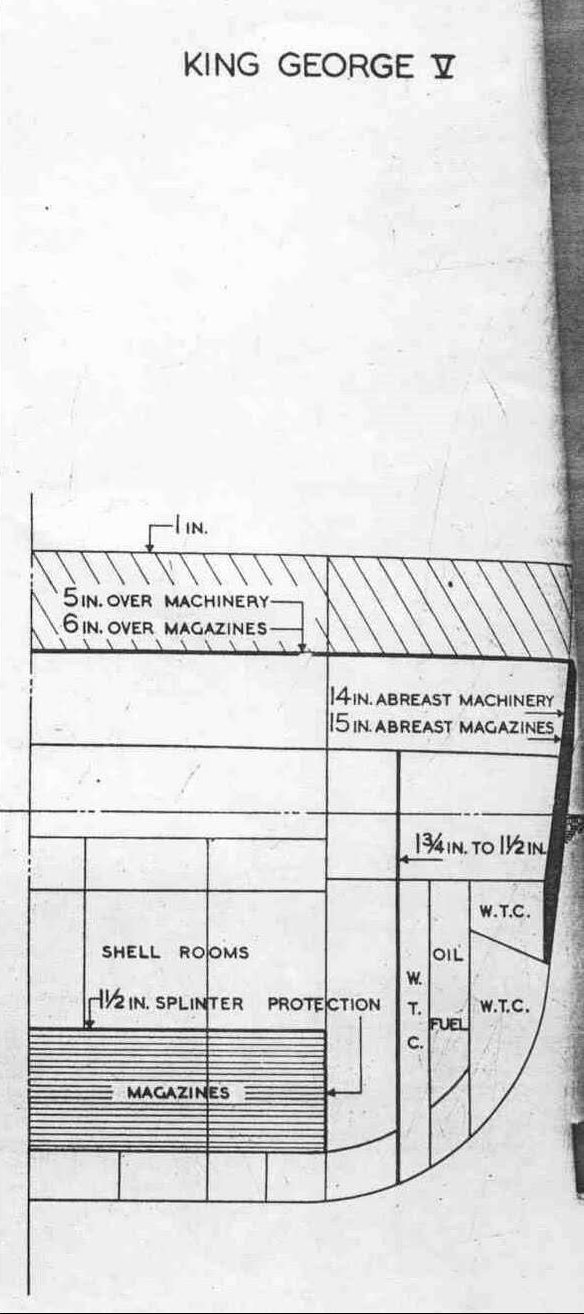 Cross sectional drawing of King George V through the main magazines showing the layout of the armour and the Side Protection System